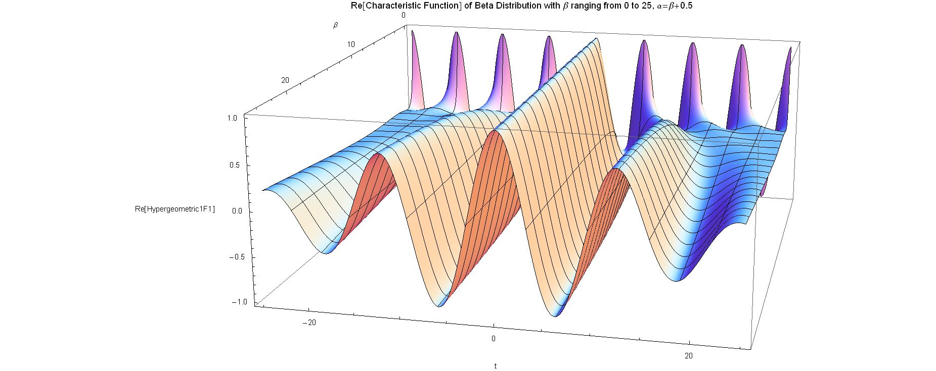 Re(CharacteristicFunction) Beta Distribution. beta from 0 to 25, alpha=beta+0.5 Back - J. Rodal